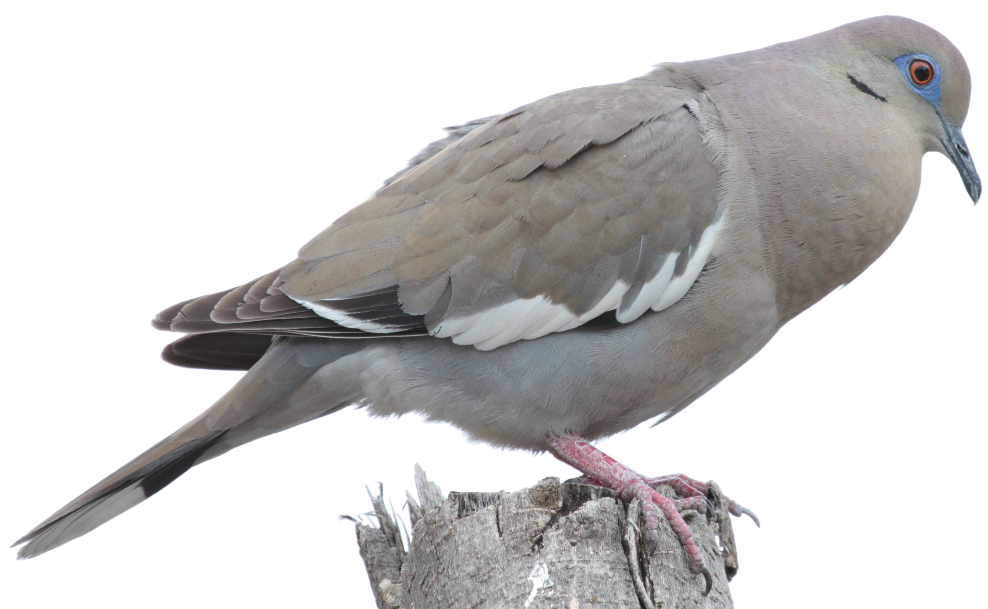 White-winged Dove -Zenaida asiatica- "singing" in Monterrey Mexico